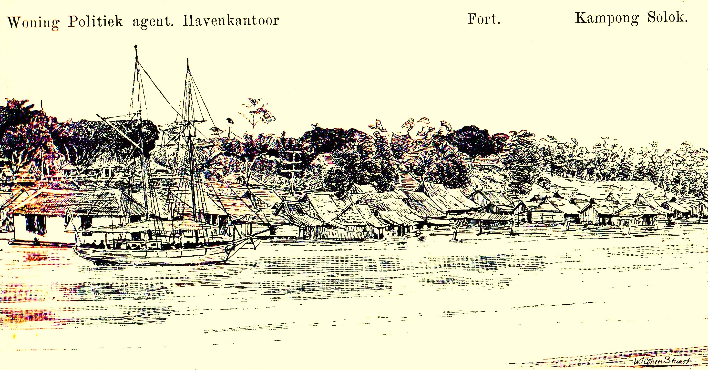 Djambi van de rivier af gezien